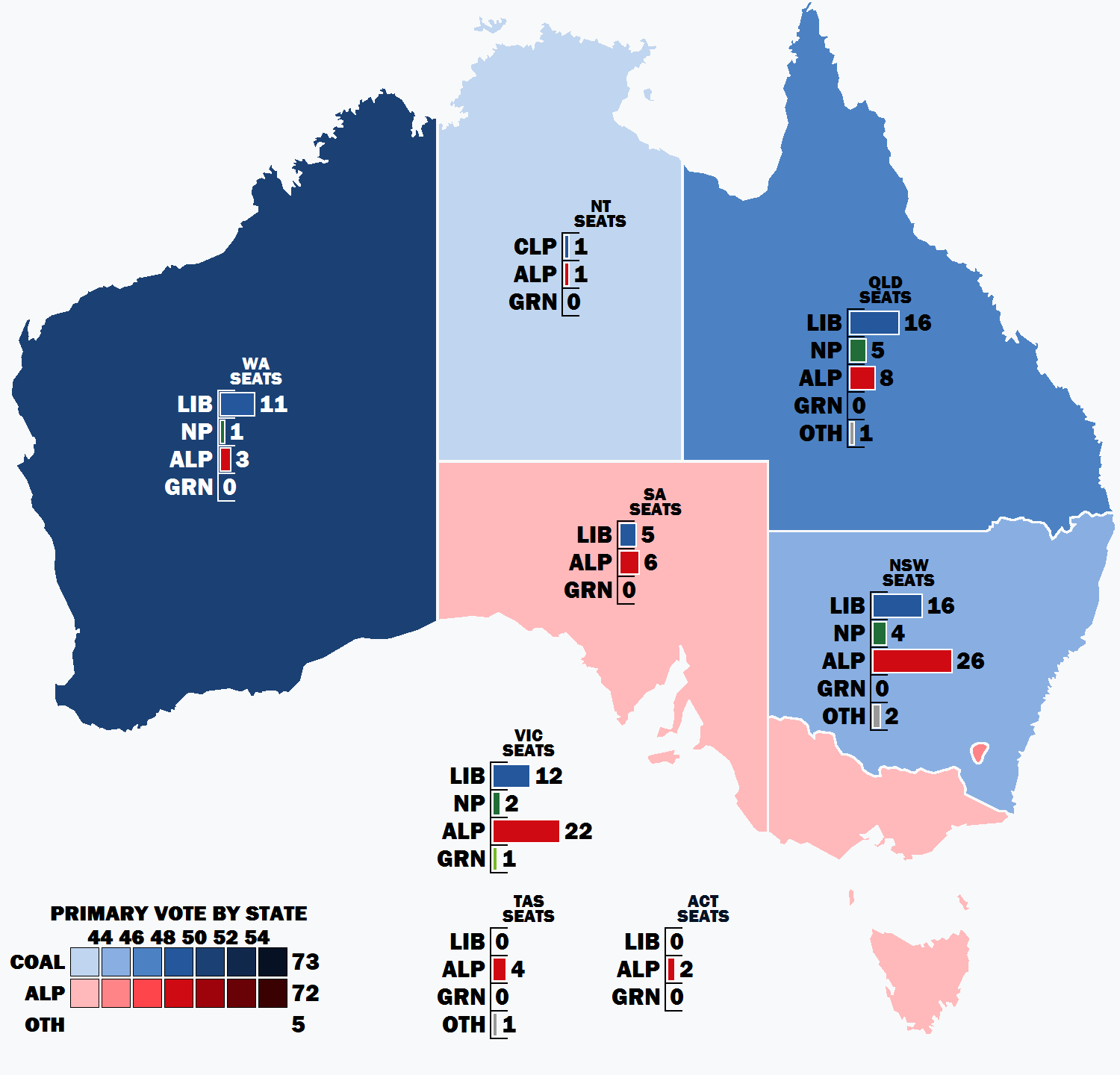 Result of the primary vote by state and territory in the 2010 Australian federal election.